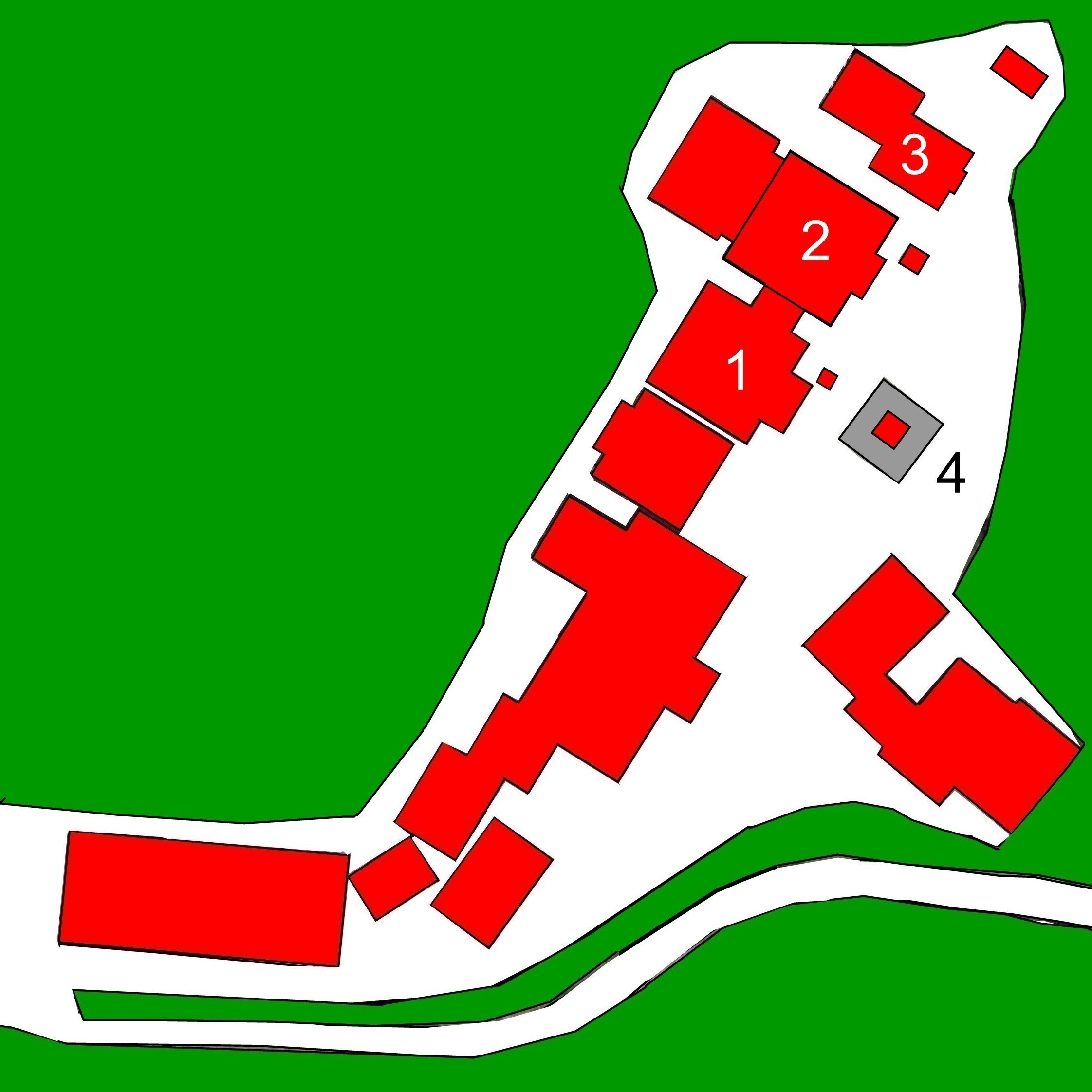 Layout of Shôsan Temple in Tokushima Prefecture, Japan